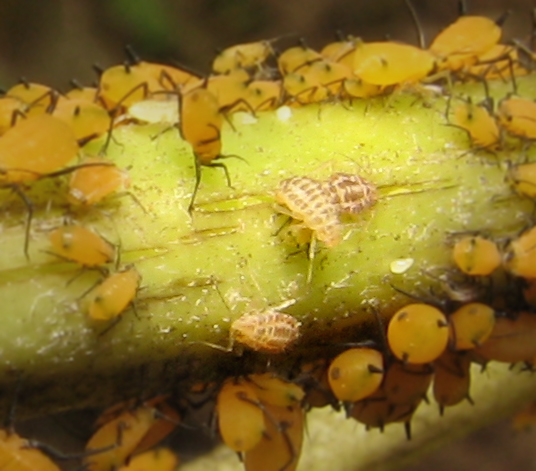 Milkweed aphids, Myzocallis asclepiadis, surrounded by Aphis nerii on common milkweed. Schuylkill Nature Center, Philadelphia County, Pennsylvania, USA.